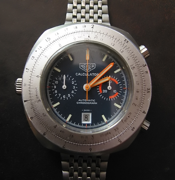 Calculator-watch